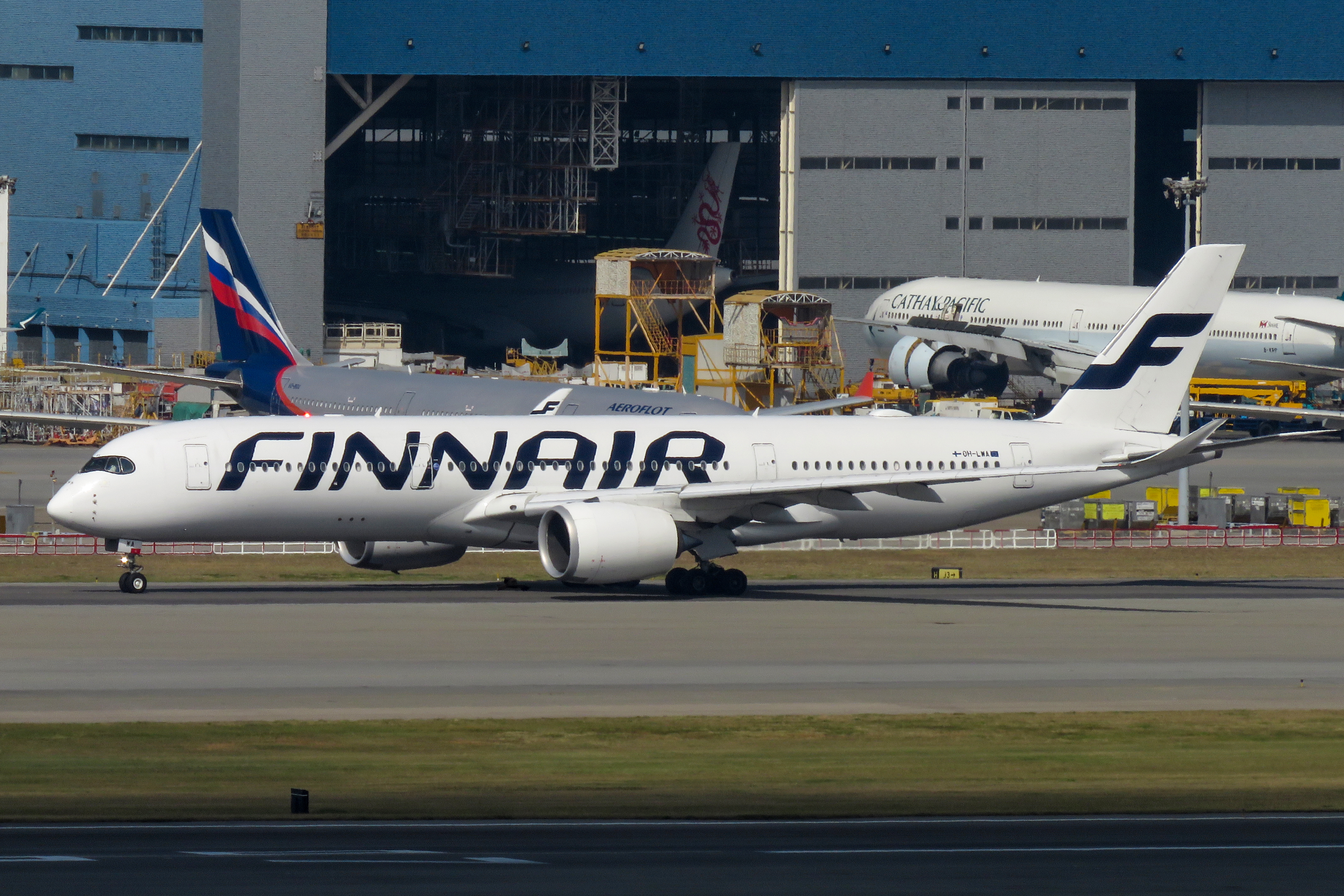 Finnair 102 to Helsinki. They have just increased flights from Hong Kong to Helsinki...